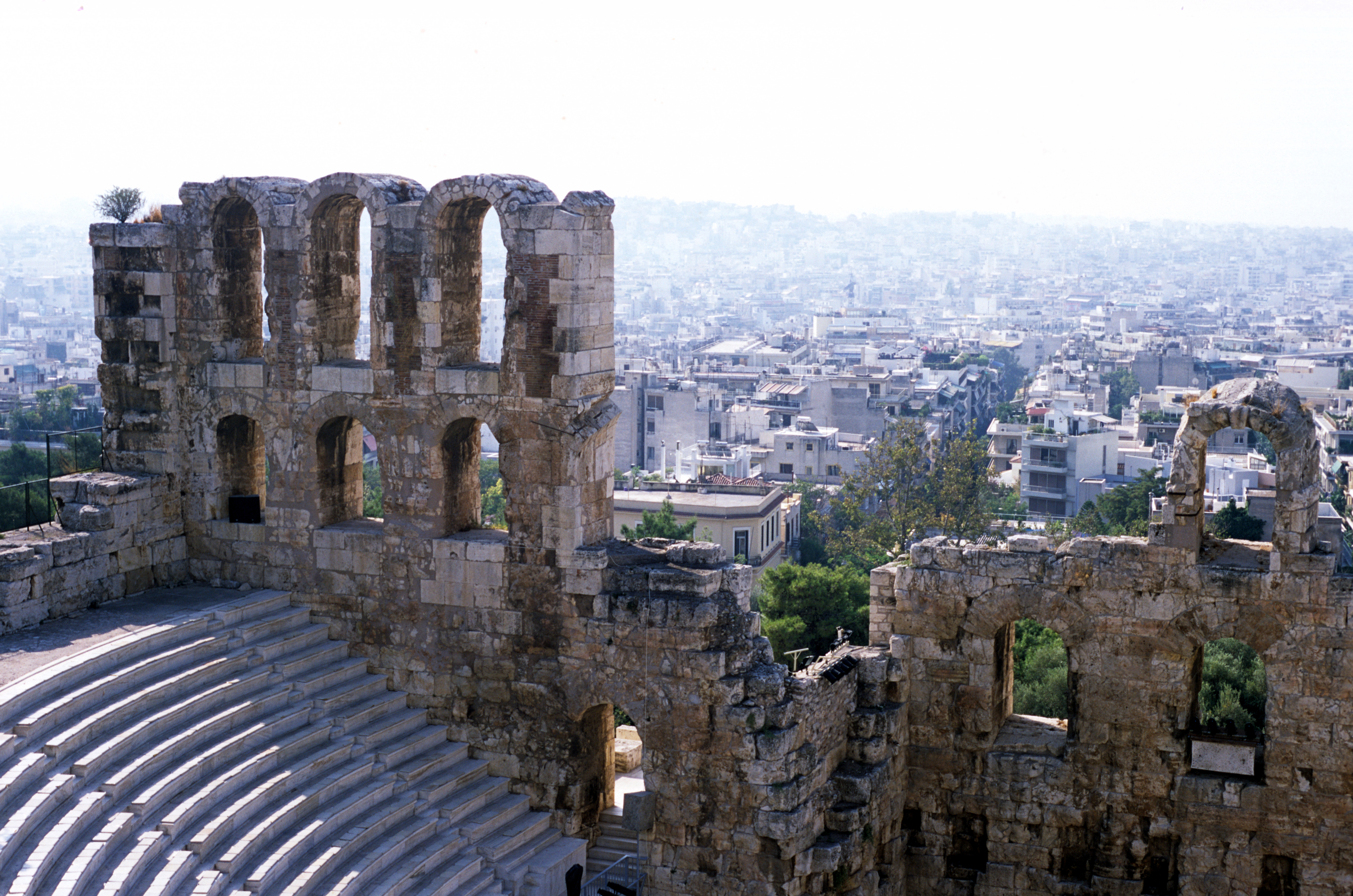 View of Athen from the Acropolis. In first plane, the Theatre of Herodes Atticus.